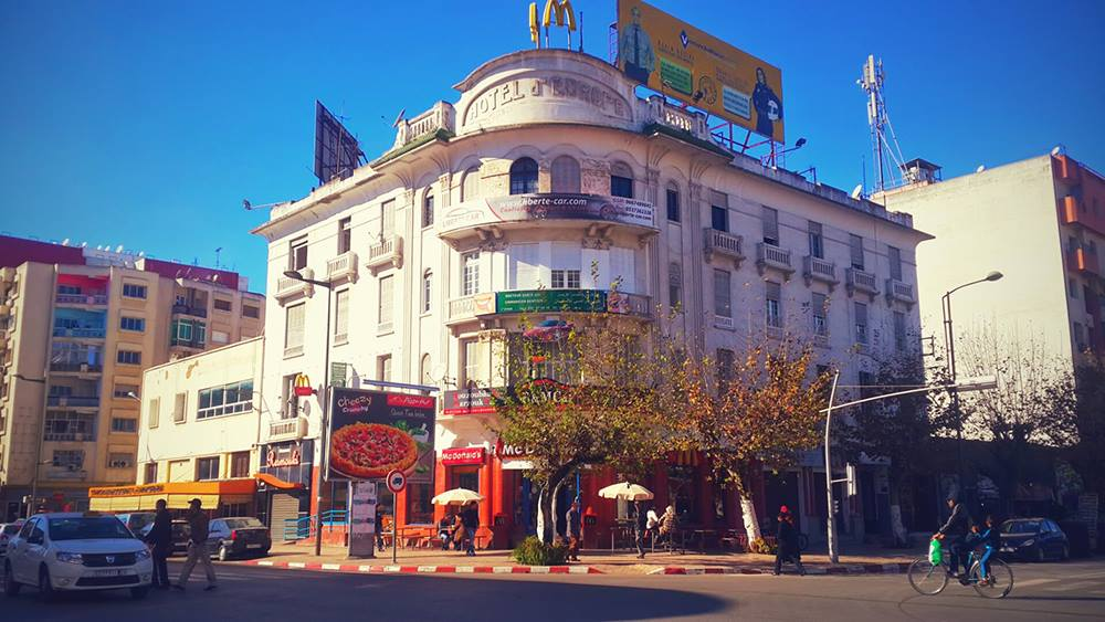 Avenue Mohamed Diouri, Avenue Mohamed V - Kenitra, Morocco